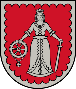 Coat of arms of Kuldīga municipalityLatviešu: Kuldīgas novada ģerbonis